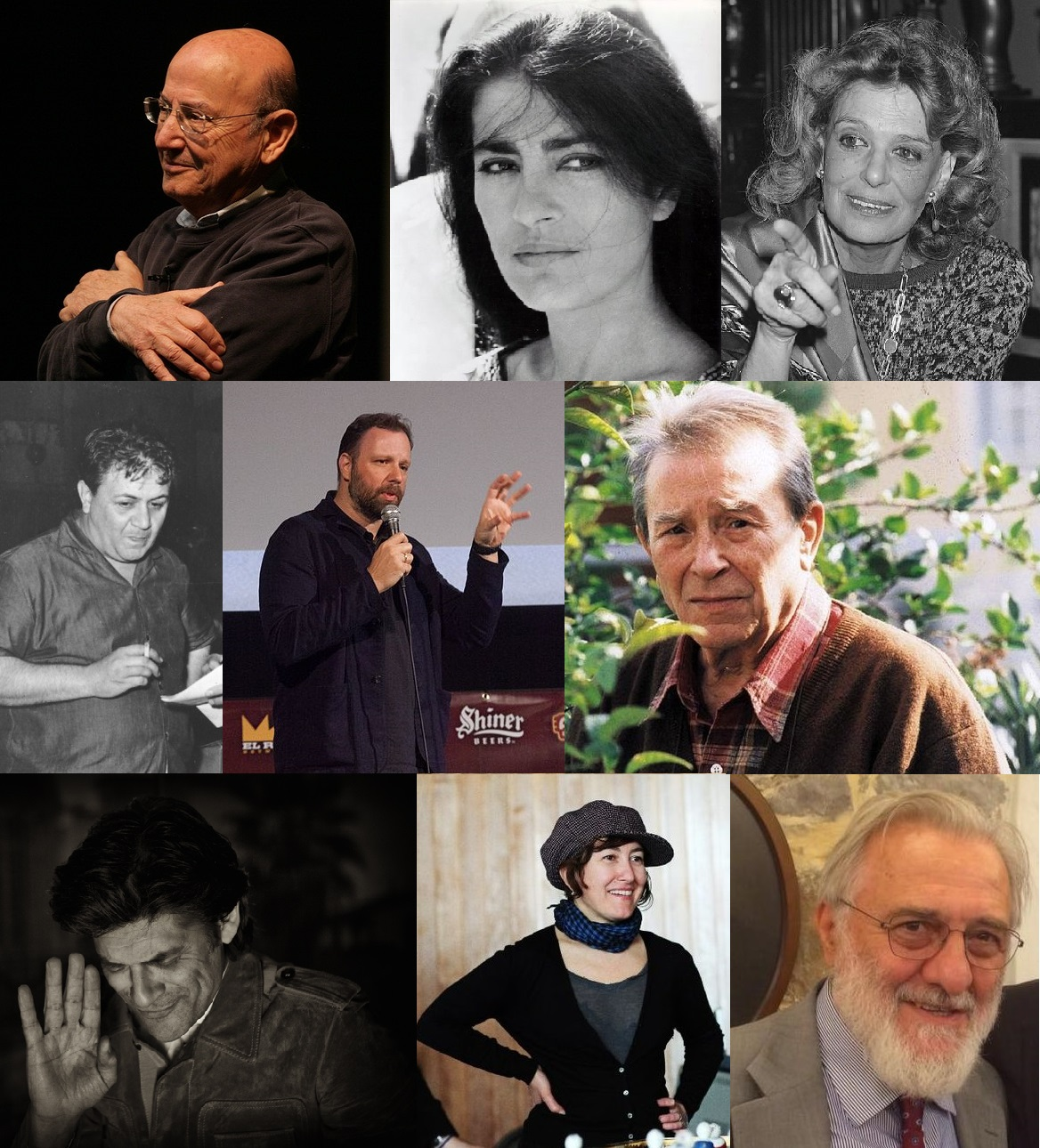 A collage of various personalities of Greek cinema. It is made using the commons-media.